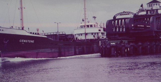 Cross Keys Bridge and ship heading north View from road north of bridge, as vessel heads north through the bridge.